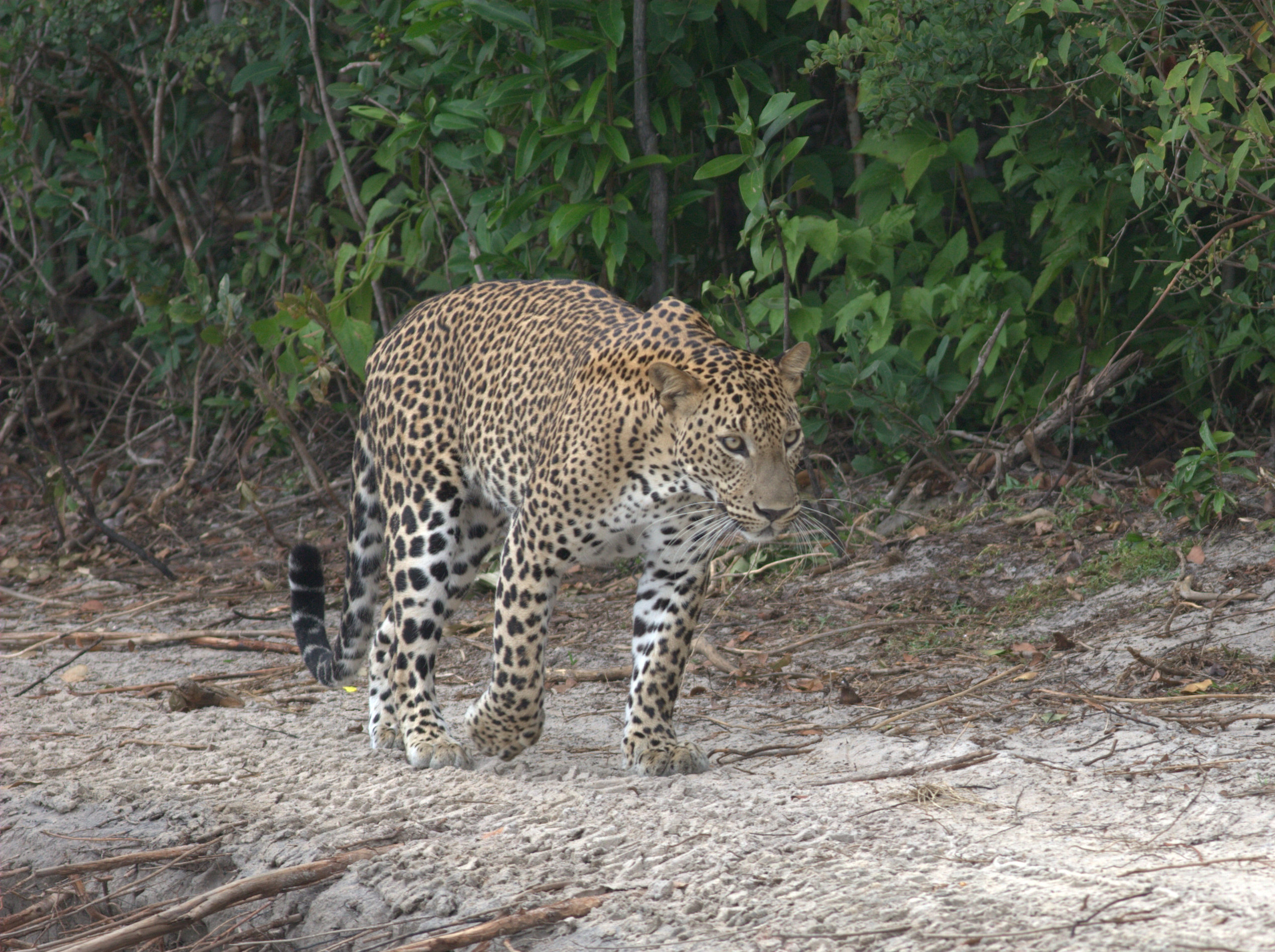 Panthera pardus kotiya